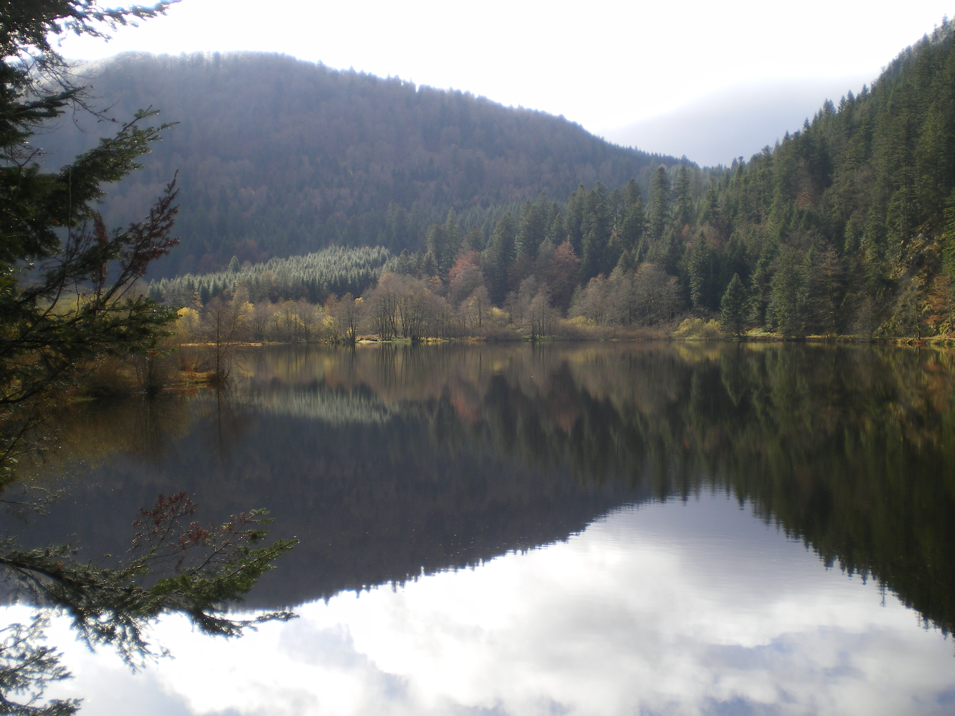 View of west bank of Retournemer Lake, near 88400 Gerardmer, Vosges, France.